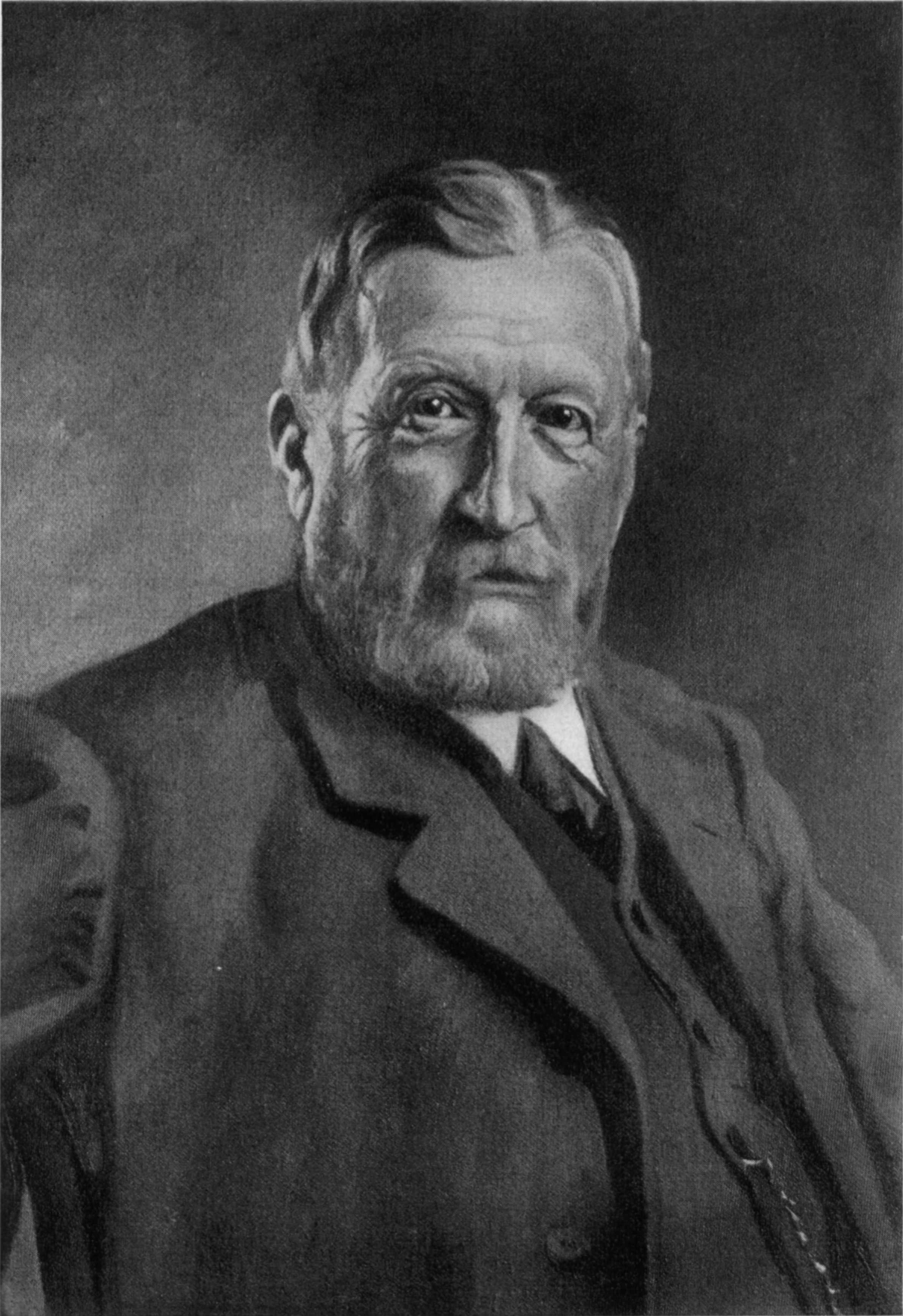 Gustav Hauck. Oil painting